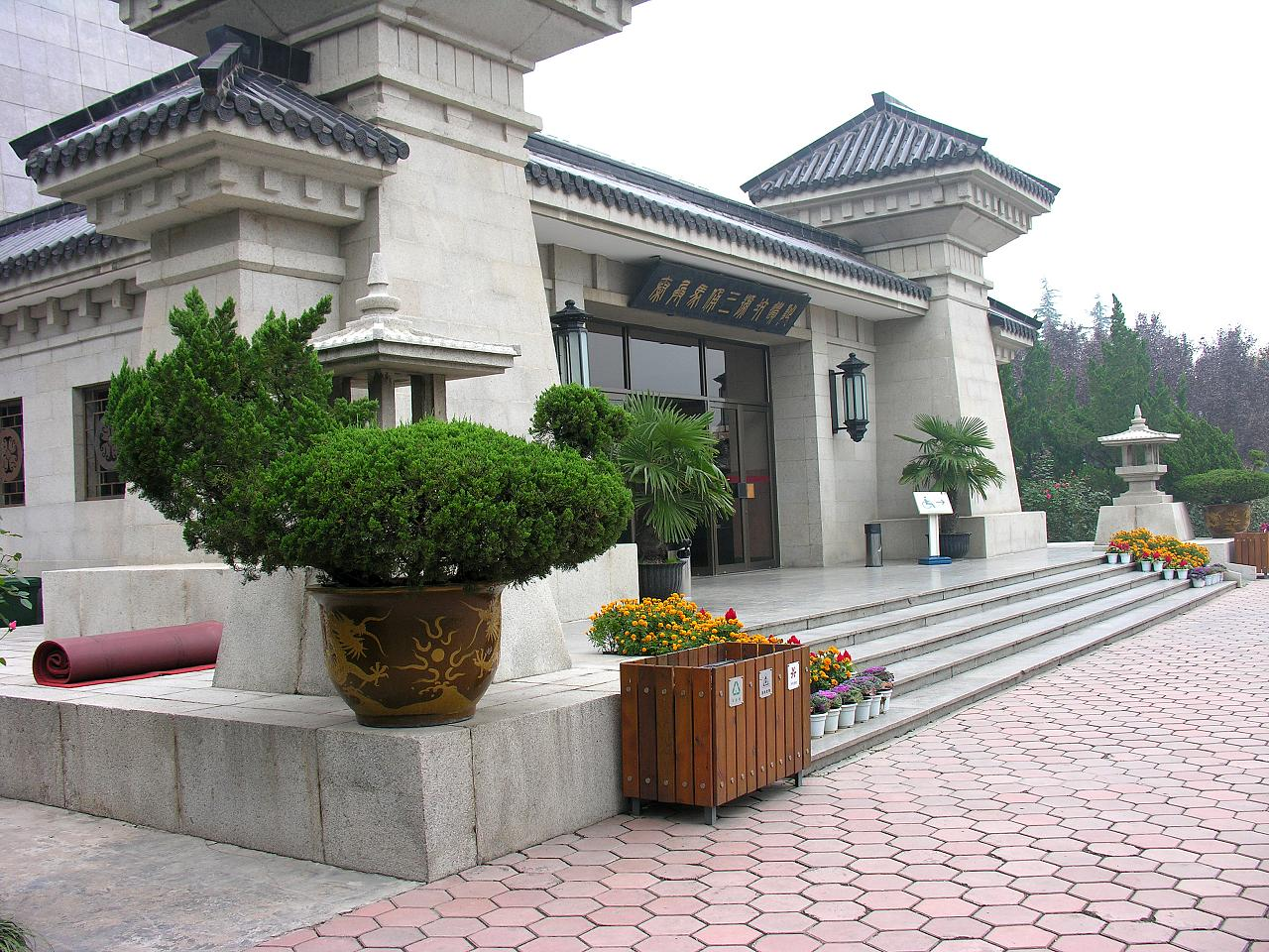 Terra Cotta Warriors, Xian, Chna